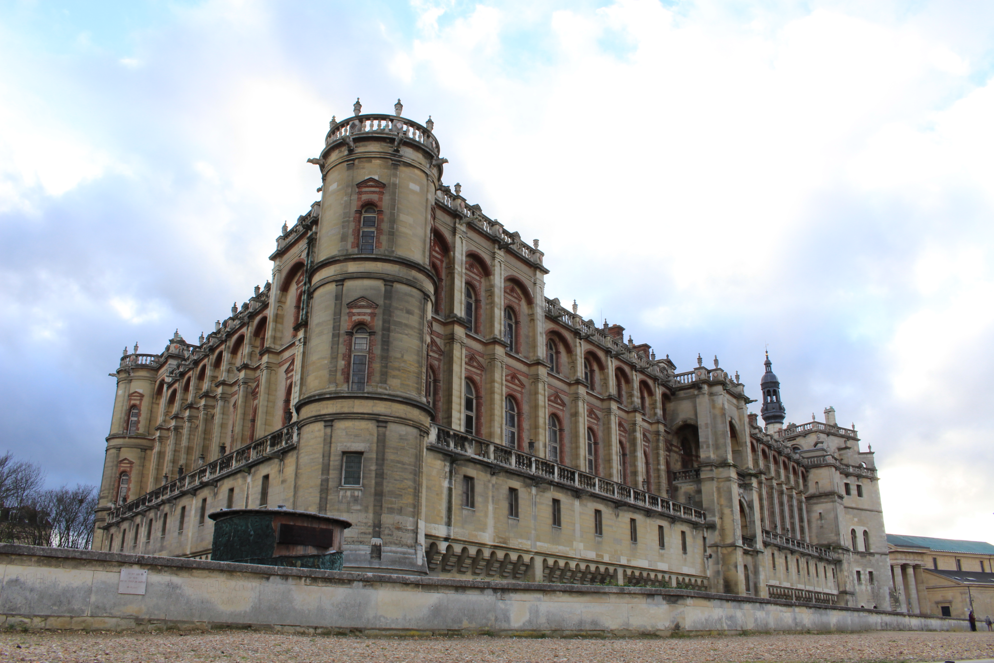 The Old Castle (Château Vieux) of Saint-Germain-en-Laye (France).